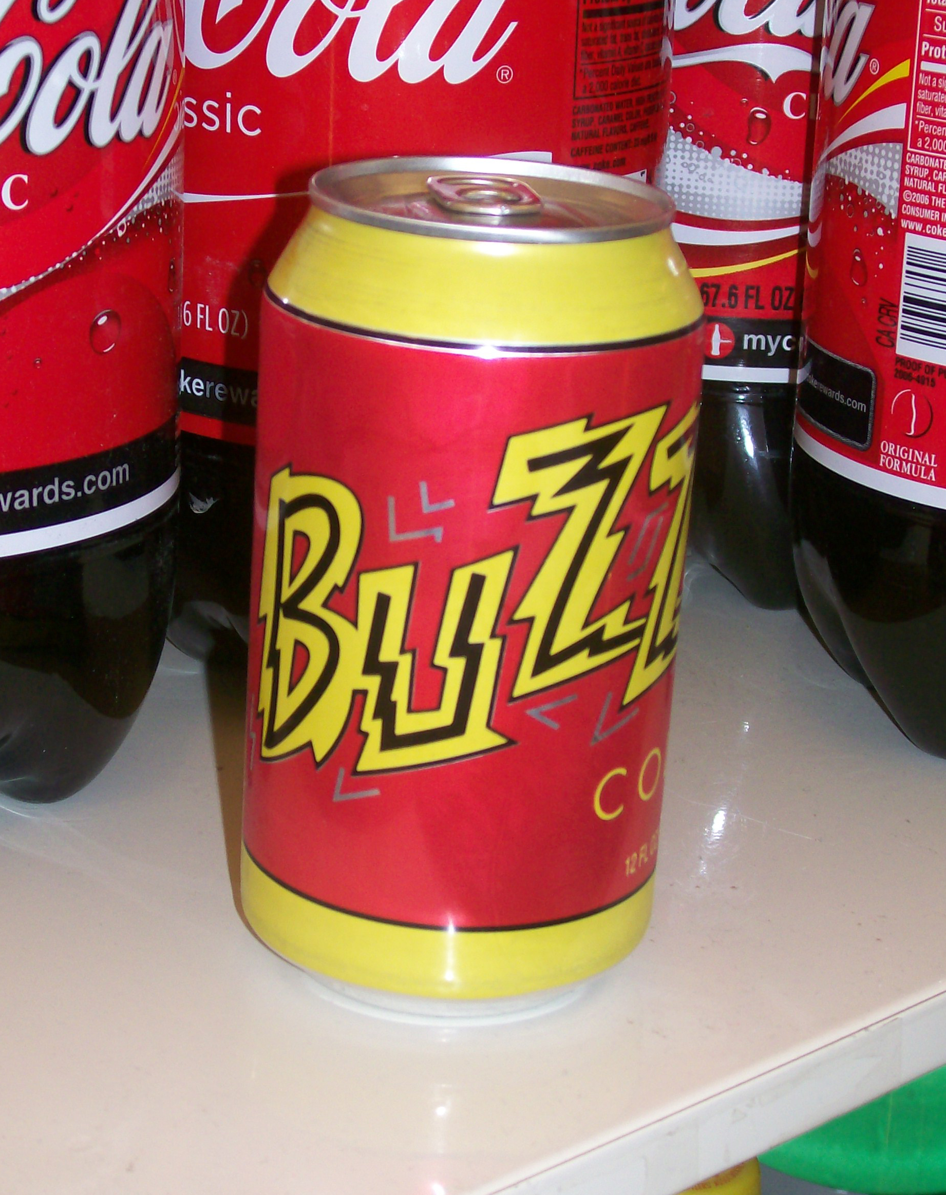 A can of Buzz Cola. Picture taken by me.